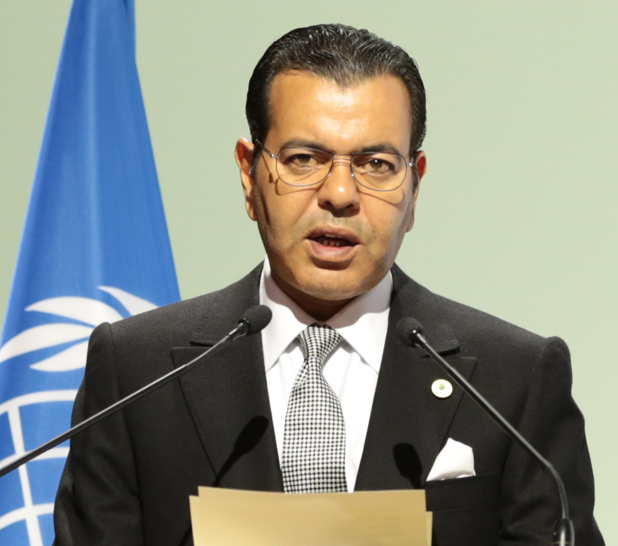 Prince Moulay Rachid of Morocco